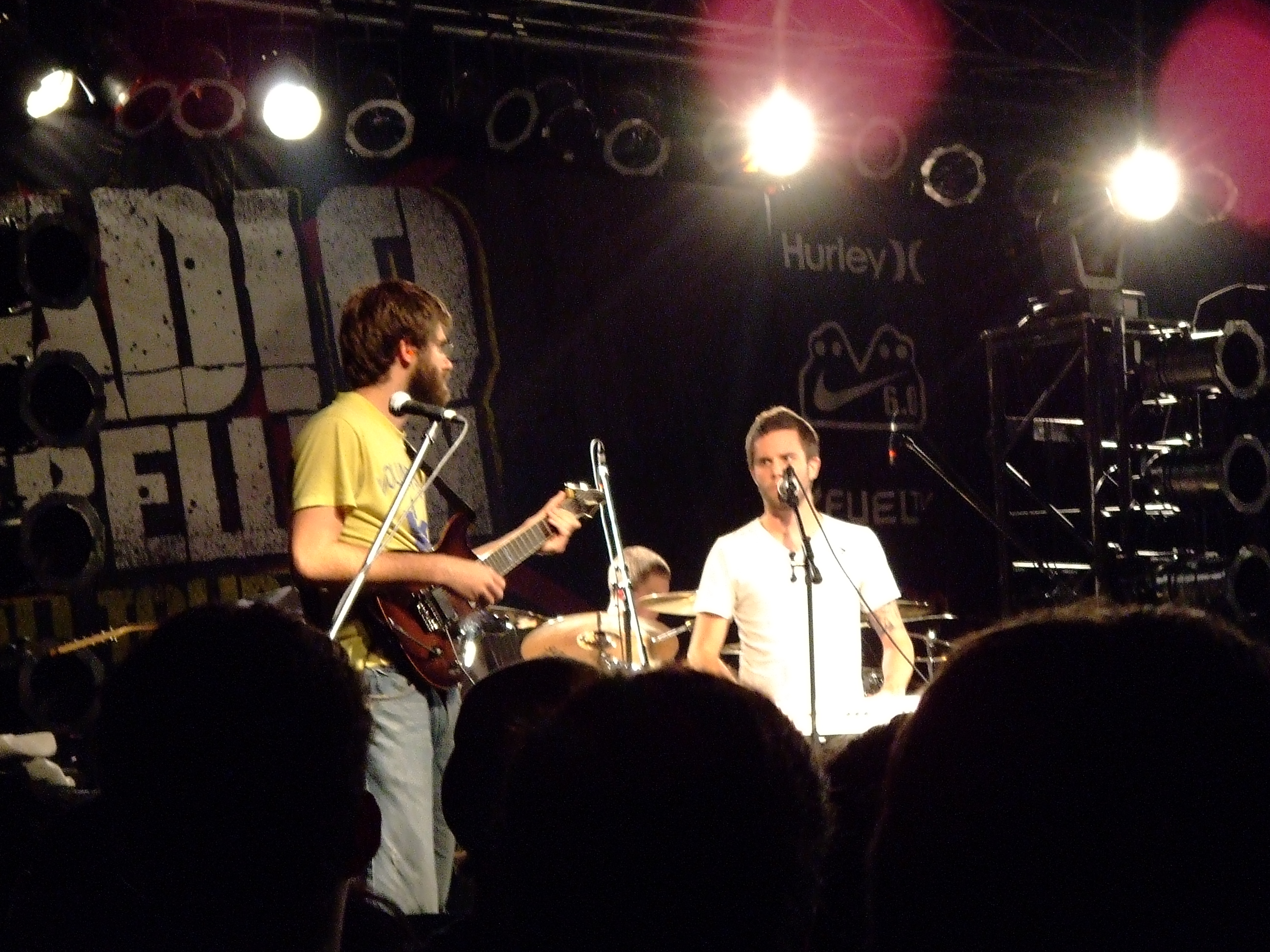 Paul and Tommy from Between the Buried and Me live at a concert in 2006.